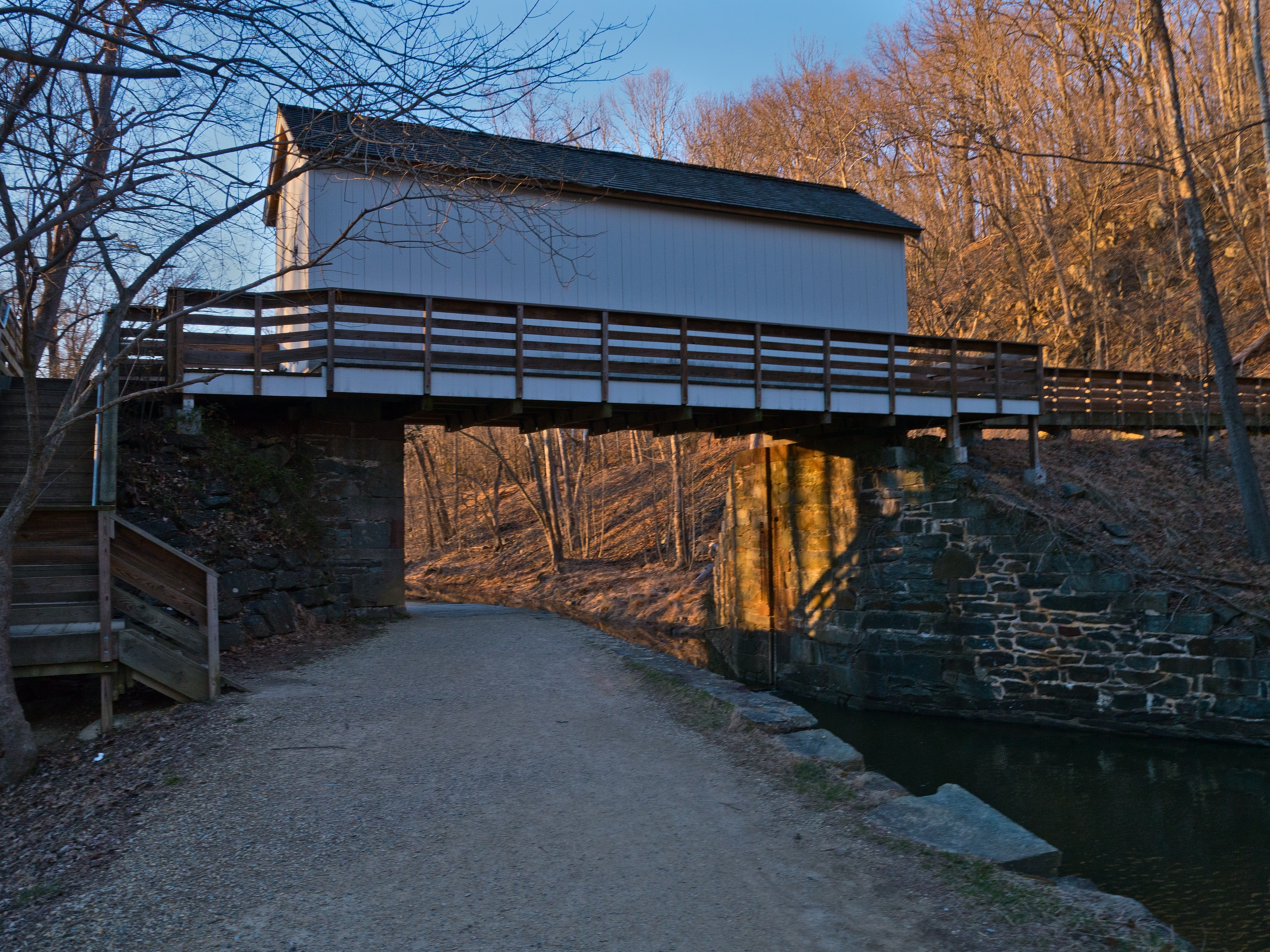 Stop gate on C & O Canal, above lock 16, at 13.74 miles near Great Falls, Maryland, USA. According to Thomas Hahn's Towpath Guide (p. 40), this was constructed in 1852 to control flood damage esp. in the Widewater area.